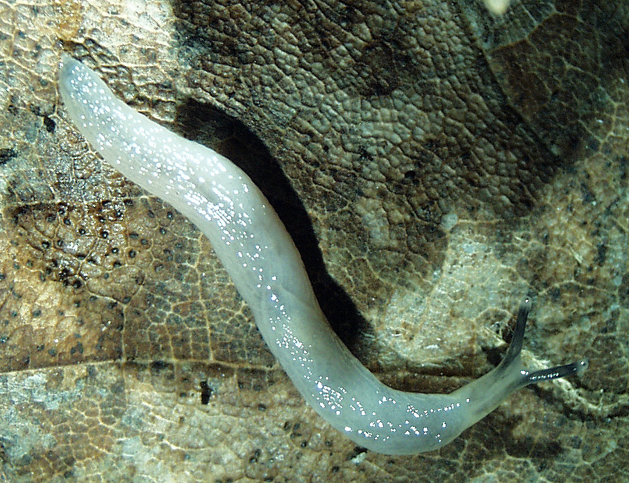 Boettgerilla pallens. Locality: Slovakia: Plešivec, in garden near railway station. Date: 28 March 1997.